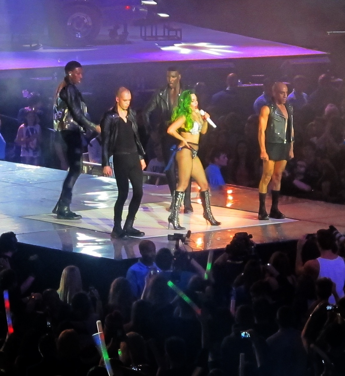 Lady Gaga on Jingle Ball